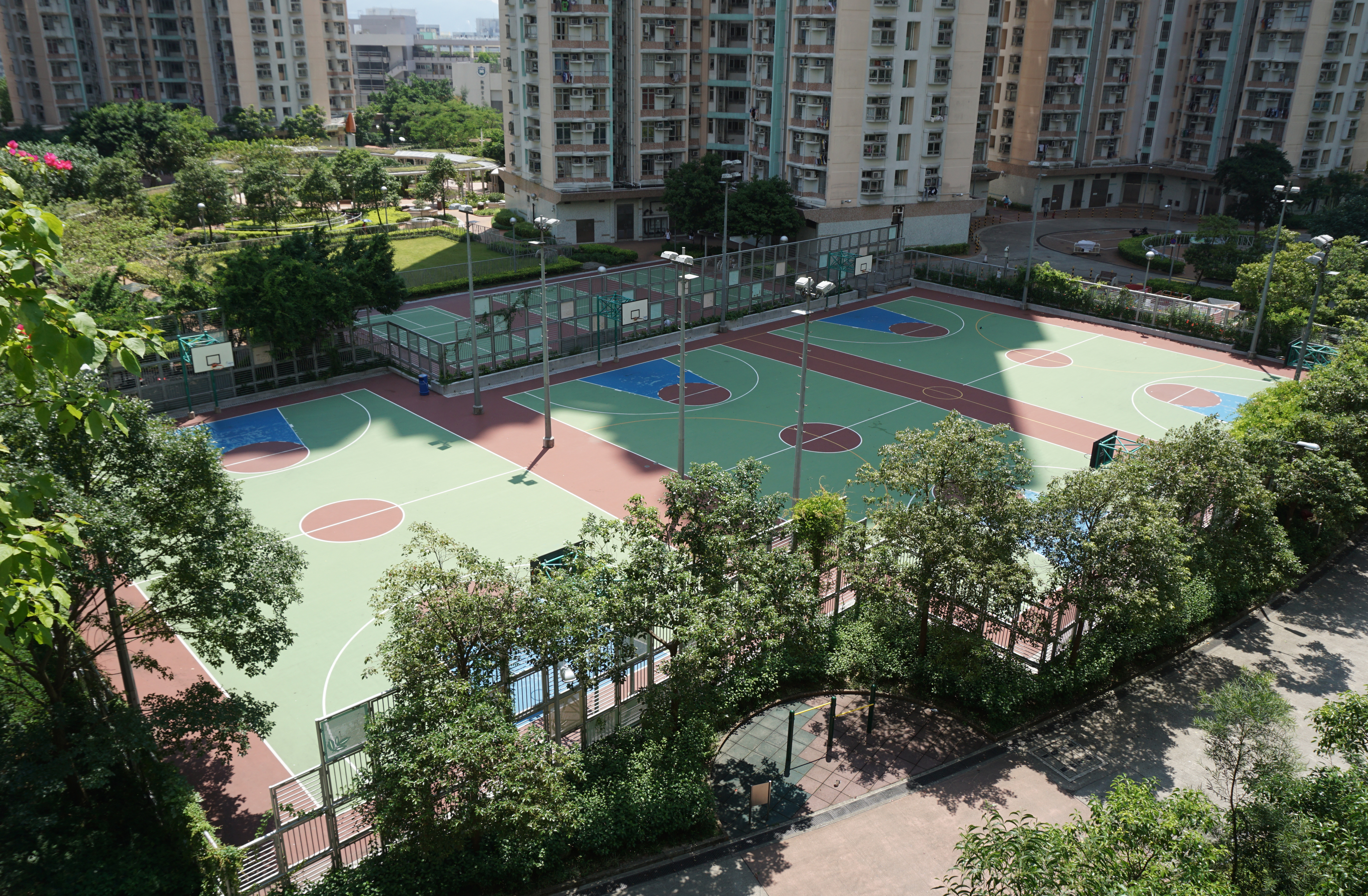 Sau Mau Ping South Estate in Sau Mau Ping, Hong Kong.